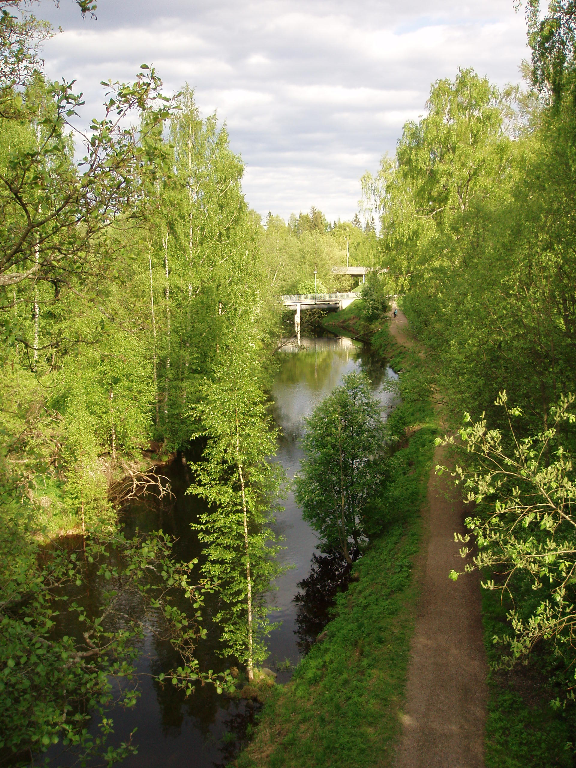 Tourujoki river nearby Jyväskylä, Finland